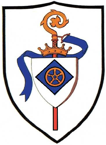 Flag of fraulautern